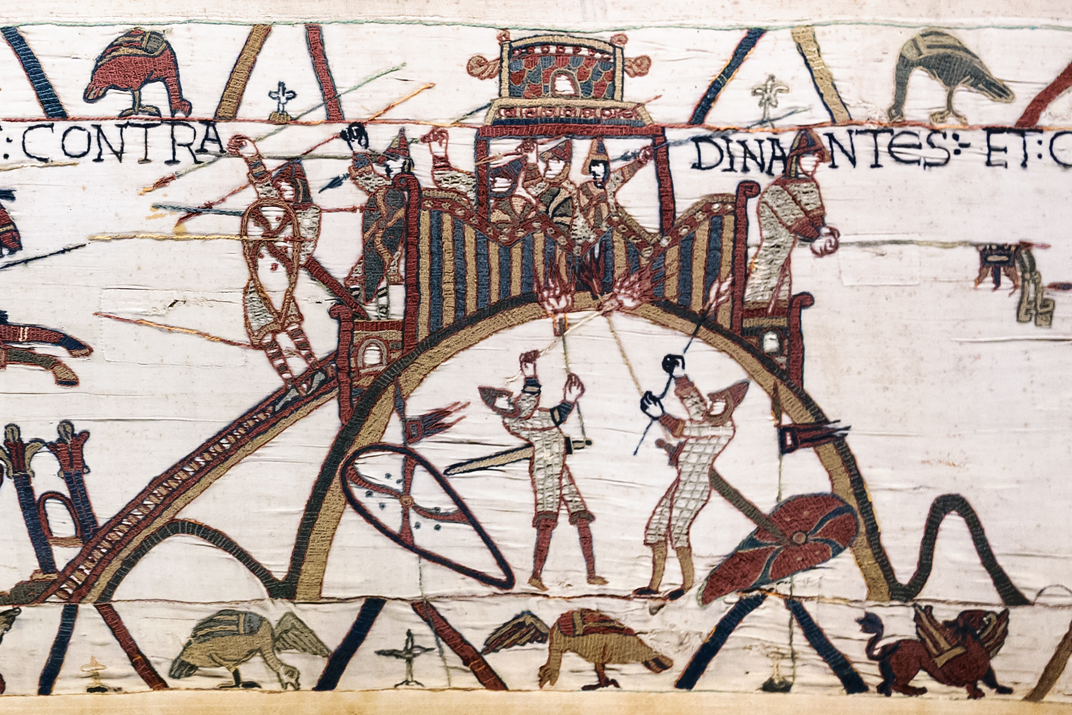 Bayeux Tapestry - Scene 19: siege of Dinan (detail). The soldiers of William, Duke of Normandy attack the motte-and-bailey castle of Dinan. Conan II, Duke of Brittany surrenders and gives the keys to Dinan via a lance.